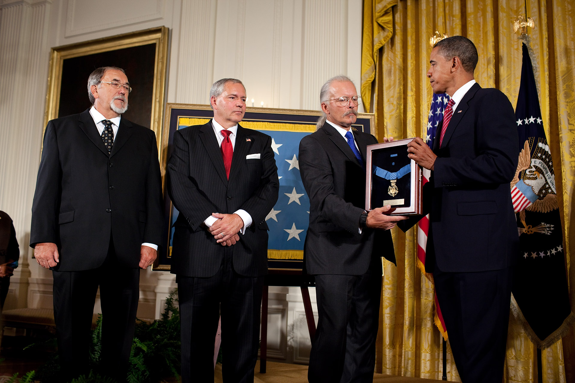 President Barack Obama presents the Medal of Honor posthumously to the sons of Air Force Chief Master Sgt. Richard L. Etchberger, from left, Steve Wilson, Corey Etchberger, and Richard Etchberger, during a ceremony in the East Room of the White House, Sept. 21, 2010. Etchberger received the Medal of Honor for his heroic actions in combat in Laos on March 11, 1968, after deliberately exposing himself to enemy fire in order to place three surviving wounded comrades in rescue slings permitting them to be airlifted to safety.